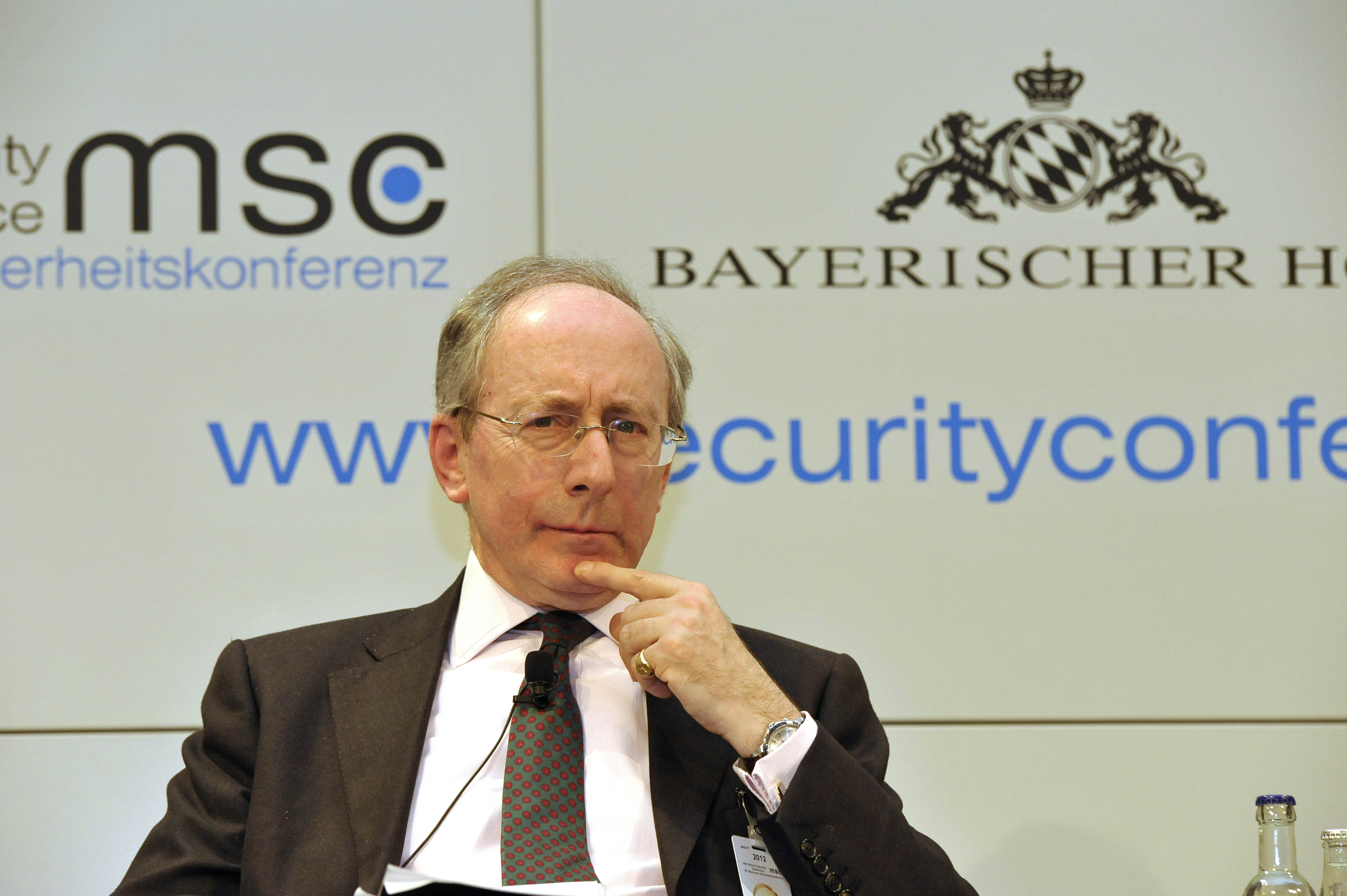 48th Munich Security Conference 2012: Sir Malcom Rifkind, Member of the Global Zero Commission.